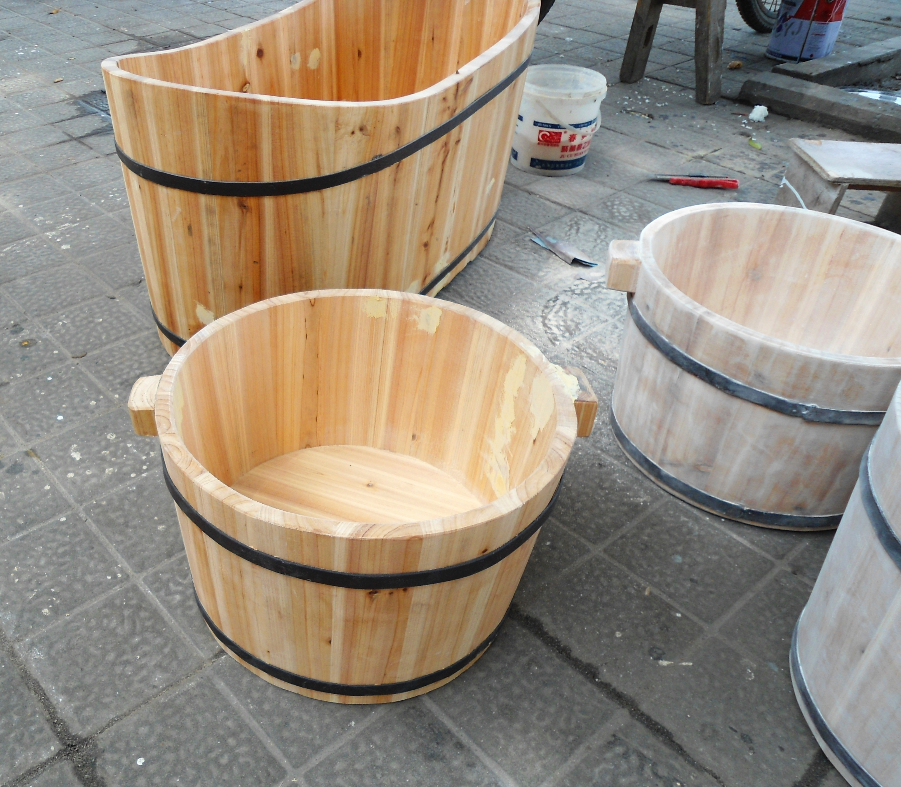 Bathtubs for infants and young children (some yet to be varnished) in Haikou City, Hainan, China.